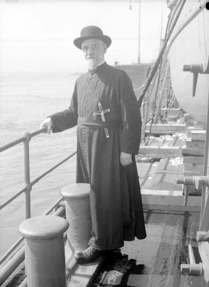 We see a religious in a cassock standingn on the ship's rail "Nascopie".